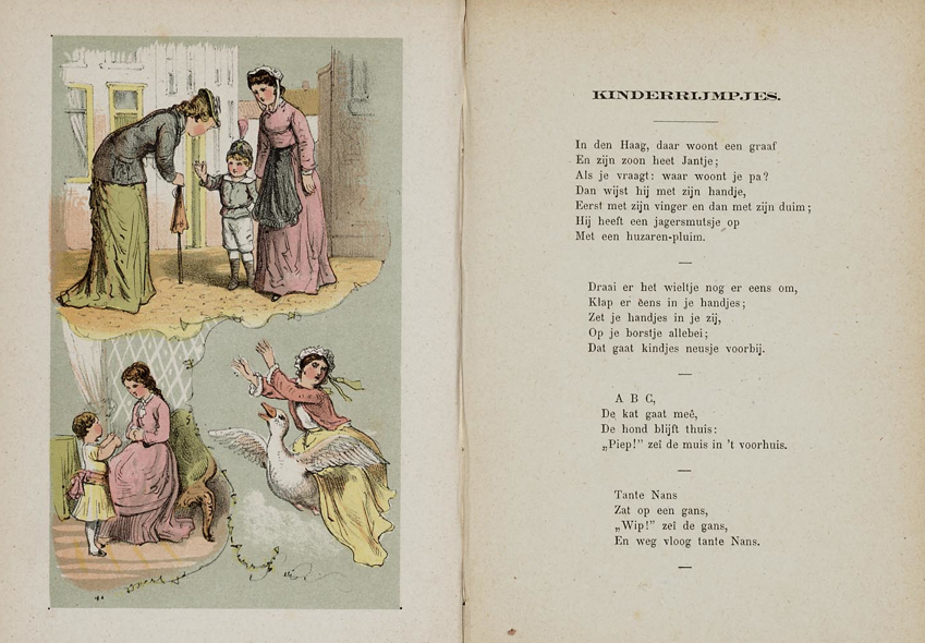 Page with traditional children's songs from: "Gouverneur's kinderdeuntjes, wiegeliedjes, speel-, tel-, raadsel- en andere rijmpjes", collected by J. Goeverneur (Arnhem, ca. 1880), p. 30. With illustrations.